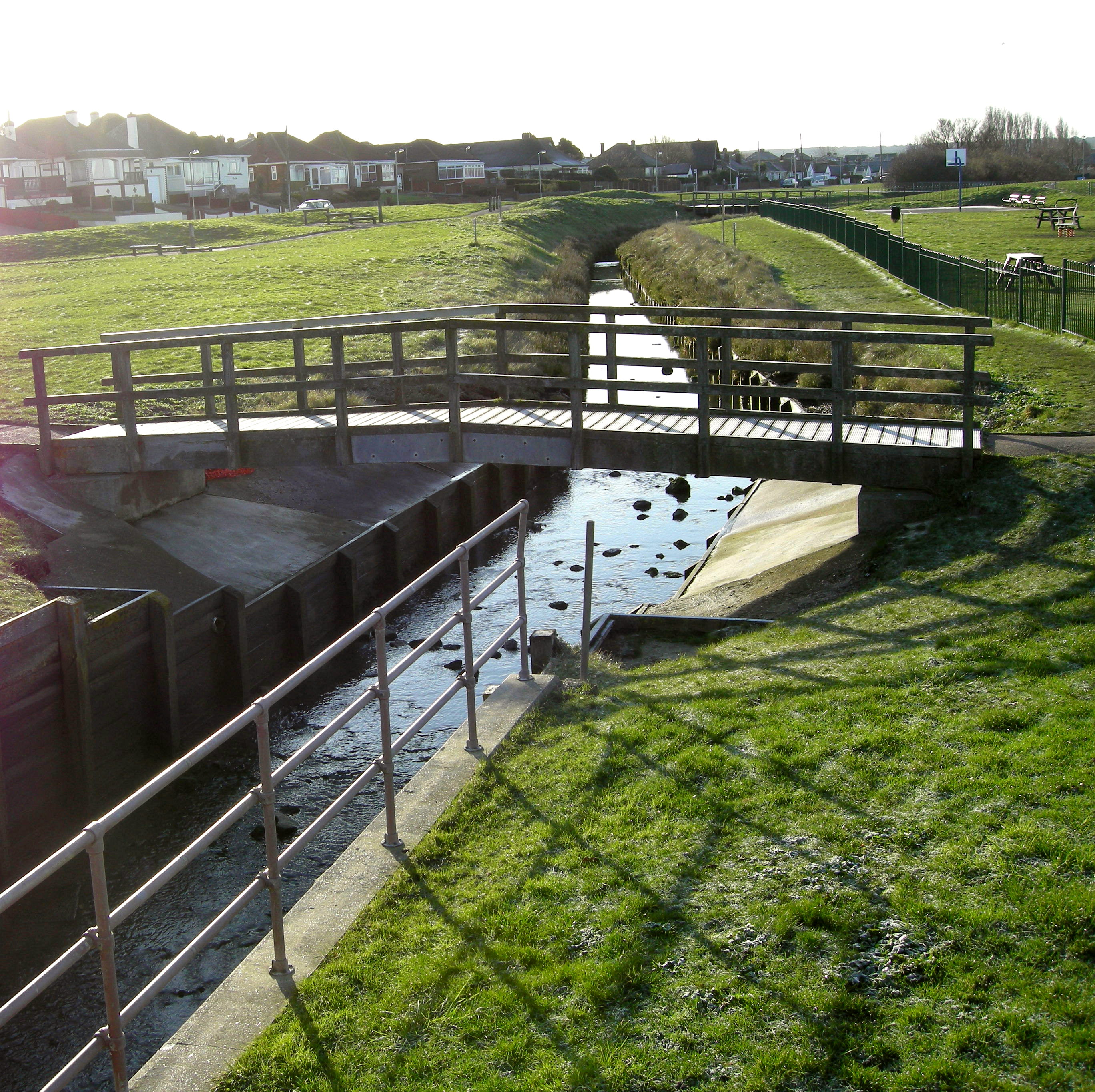 Site of abandoned and drowned village Hampton-on-Sea, Herne Bay, Kent, England. Source of identification of site: Martin Easdown, Adventures in Oysterville, (Michael's Bookshop, Ramsgate, 2008)